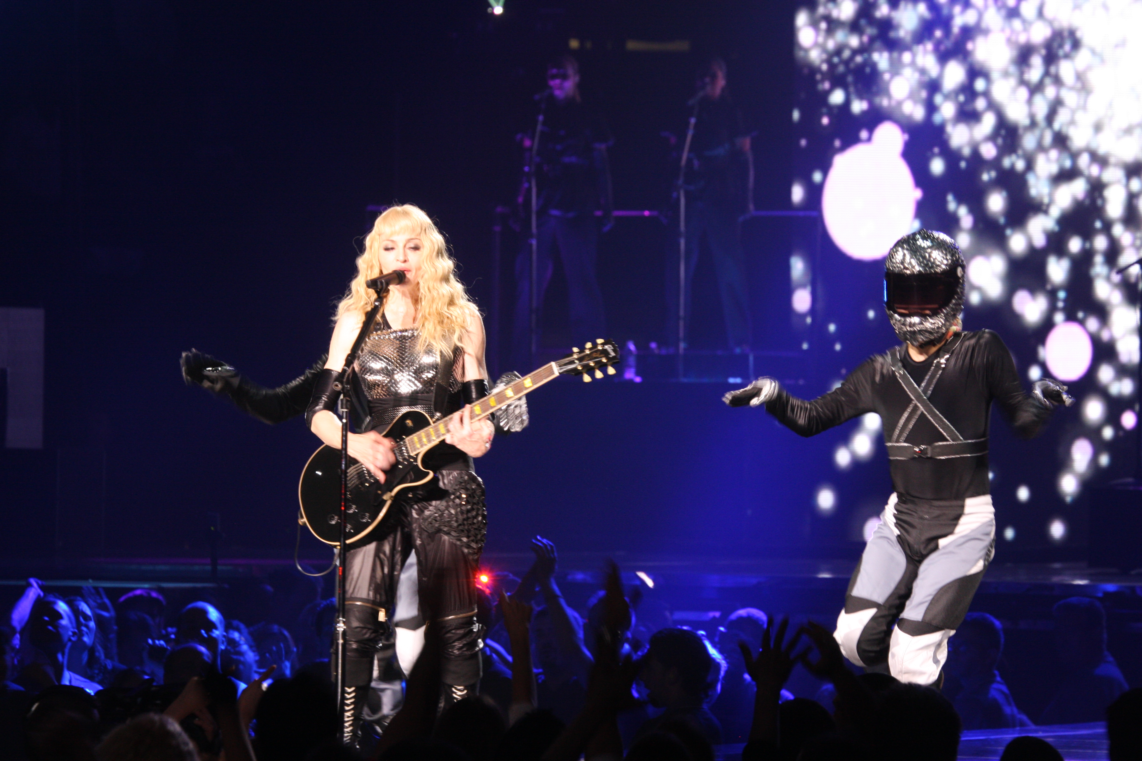 Madonna concert